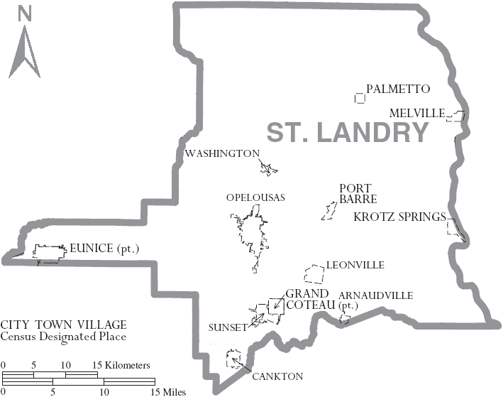 Map of St. Landry Parish, Louisiana, United States with municipal boundaries